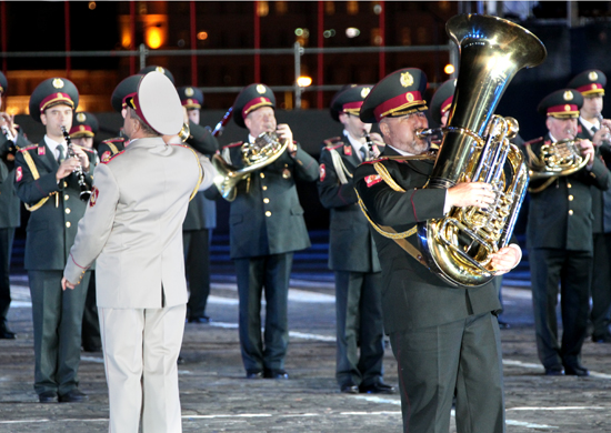 The 5th International military and musical festival "Spasskaya Tower" official opening